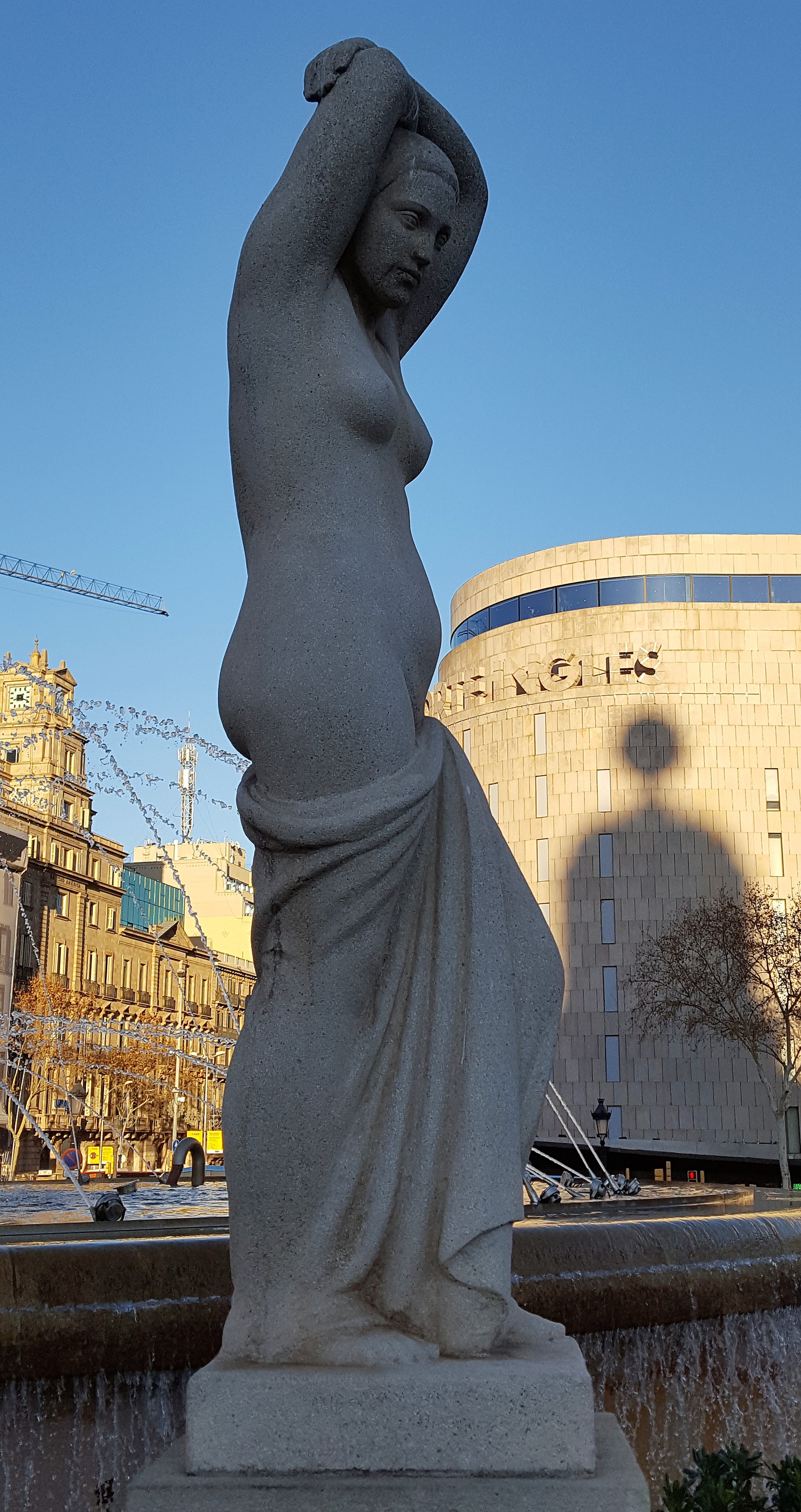 Josep Clarà i Ayats: La joventut, Placa de Catalunya, Barcelona